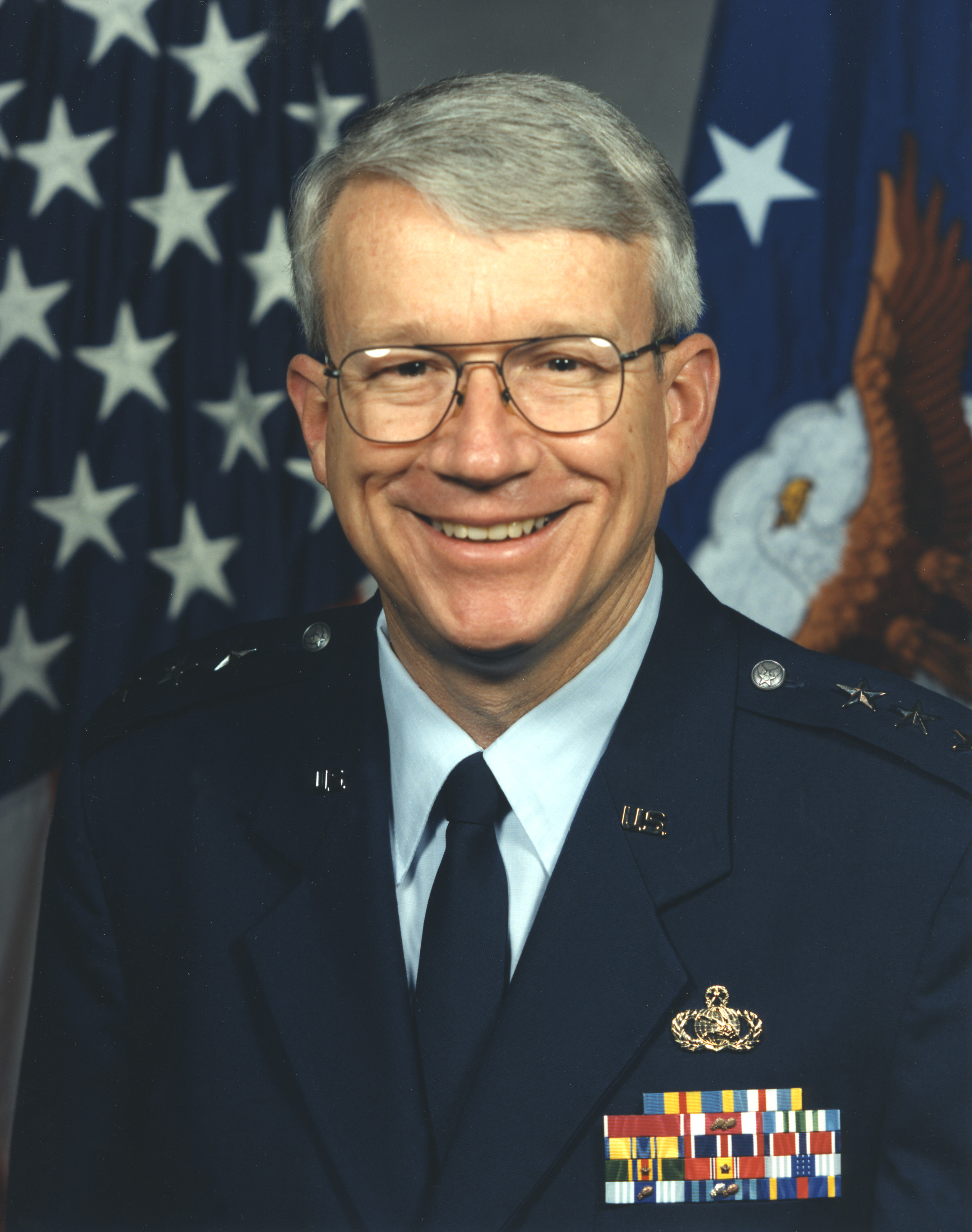 William J. Donahue from [1]